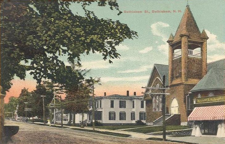 Methodist Episcopal Church and Main Street, Bethlehem, NH; from a 1907 postcard.